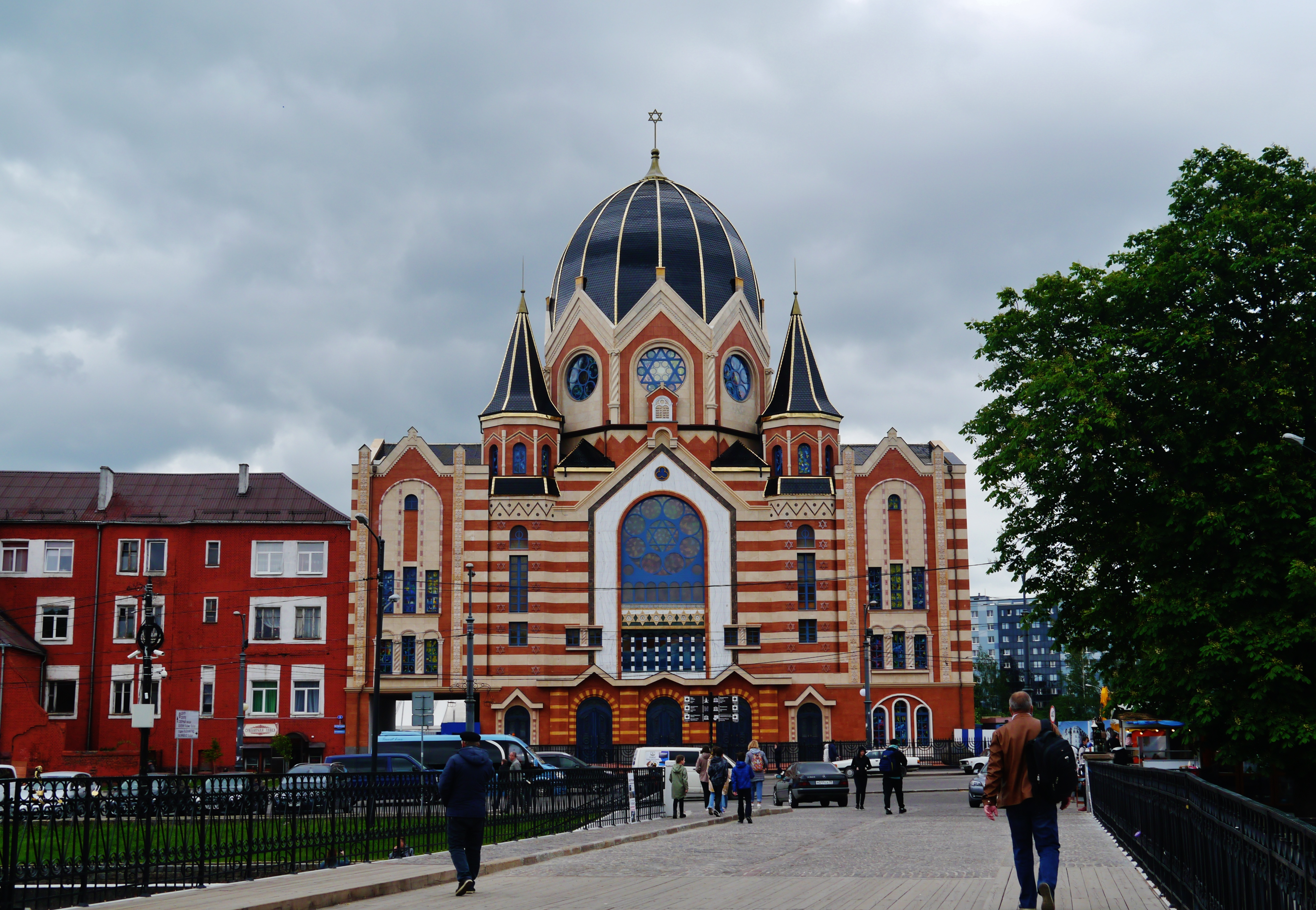 rebuilt Synagogue, Königsberg/Kaliningrad, East Prussia/Oblast Kaliningrad, Russia (former Germany)